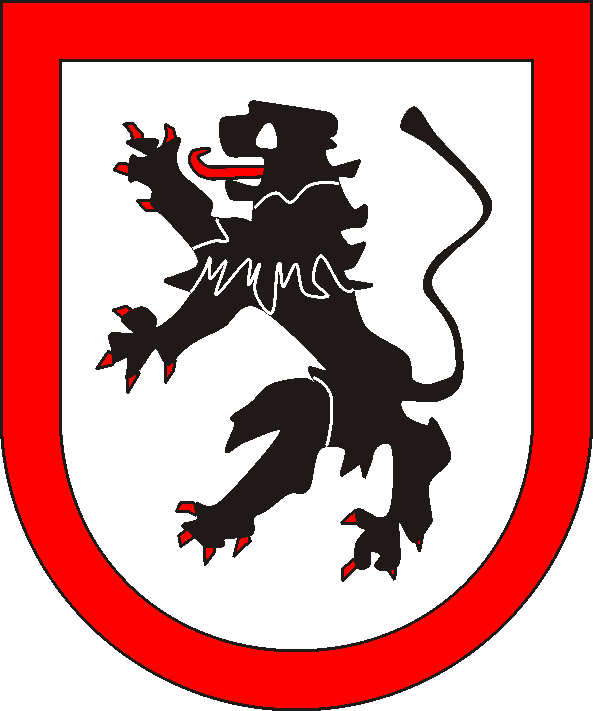 coats of arms of the lordship of Lichtenberg